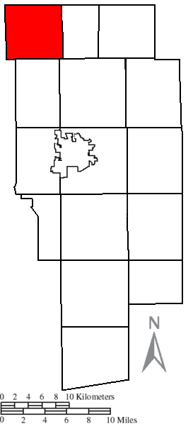 Originally created by the US Census. Modified by myself to highlight the township.